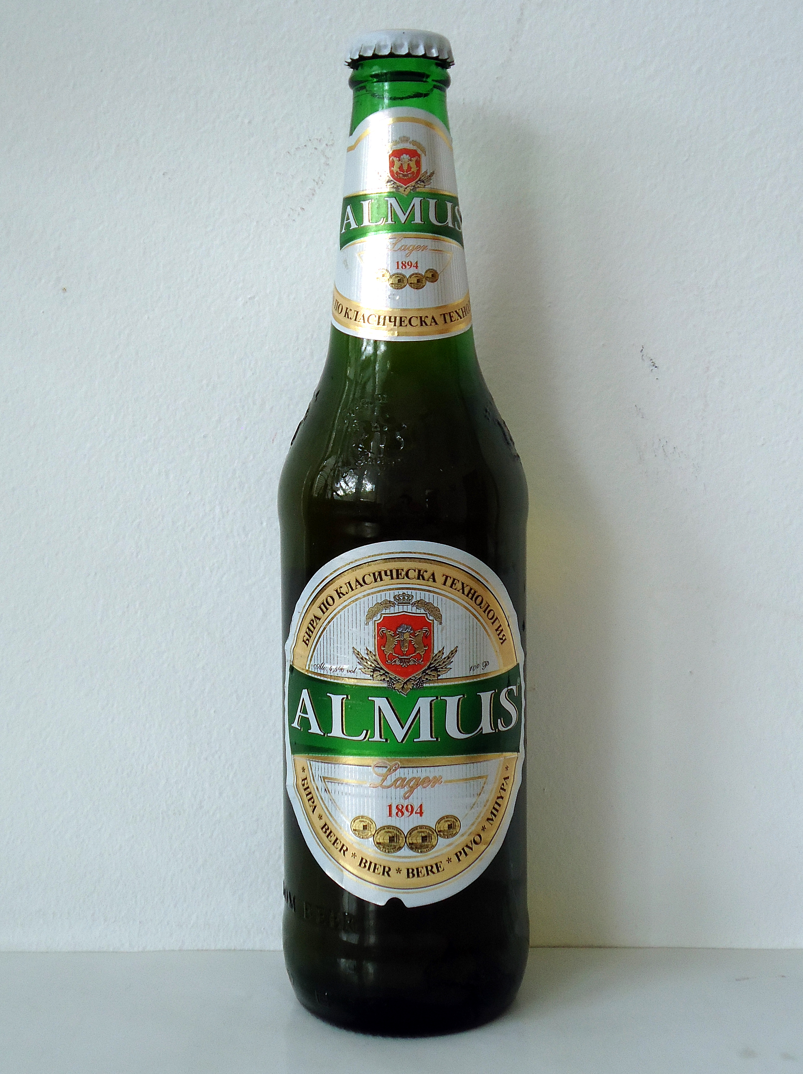 Almus lager beer